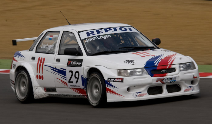 Jaap van Lagen (Russian Bears Motorsport) at the 2008 WTCC Brands Hatch race.